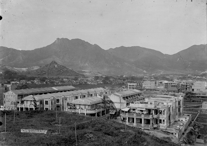 Kowloon City in 1930s